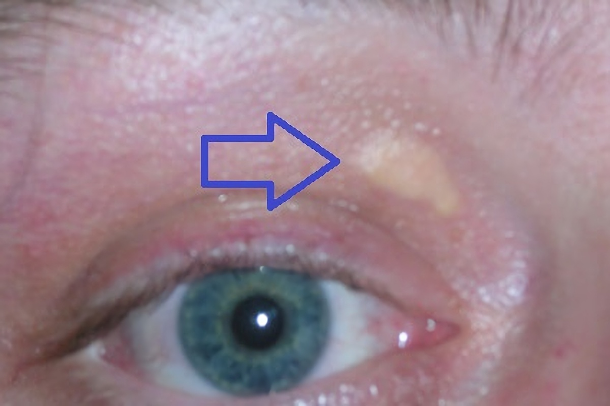 5x4mm Xanthelasma above right eye. Taken by myself approximately a year after initial appearance.